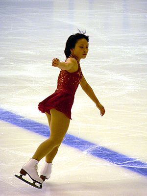 Mutsumi Takayama during her free skate at the 2005 Junior Grand Prix event in Croatia